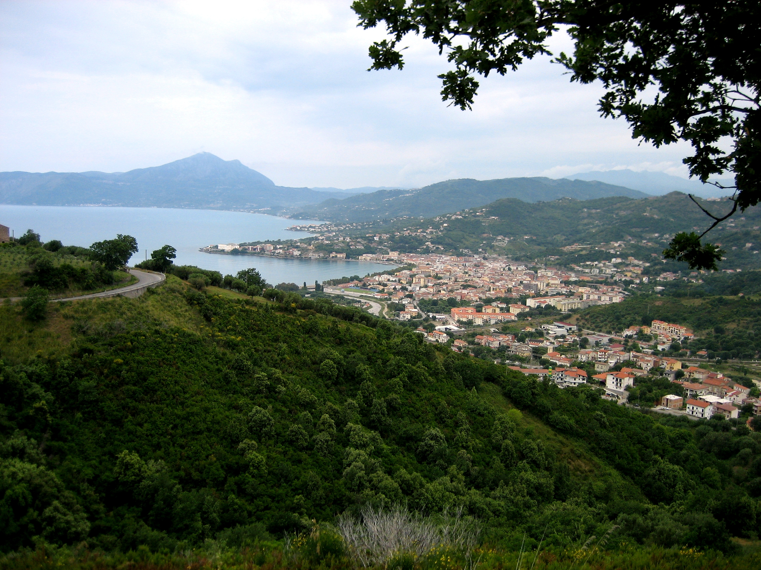 The city of Sapri in Campania in Italy.